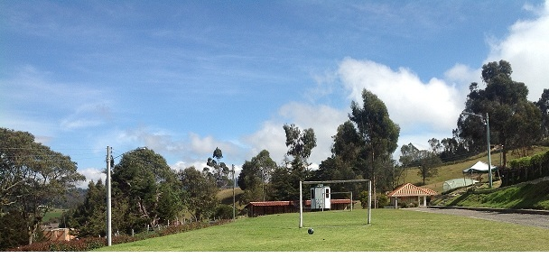 Vereda el Hato, vía la Calera